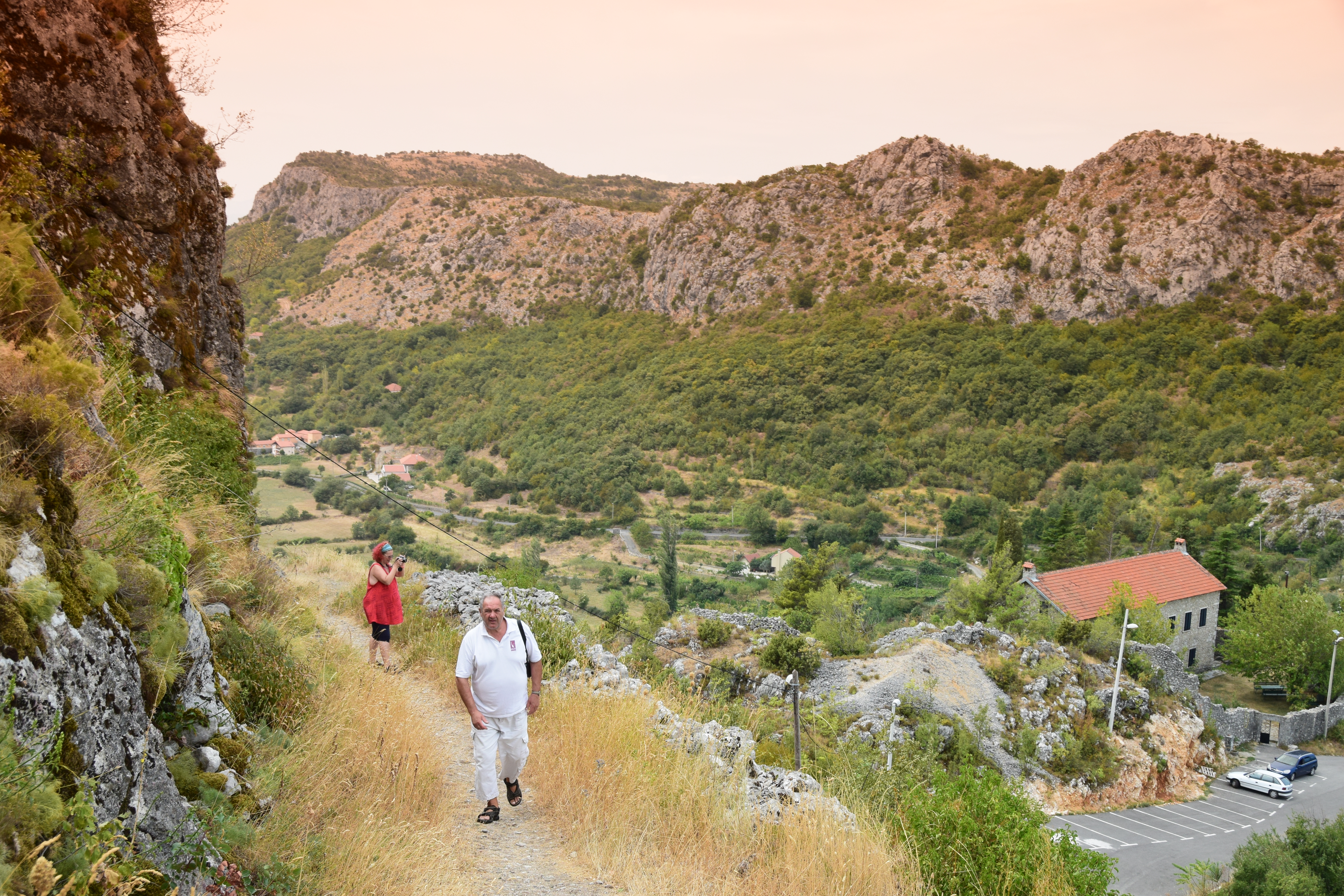 View of the Marko Miljanov Museum from Medun Fort